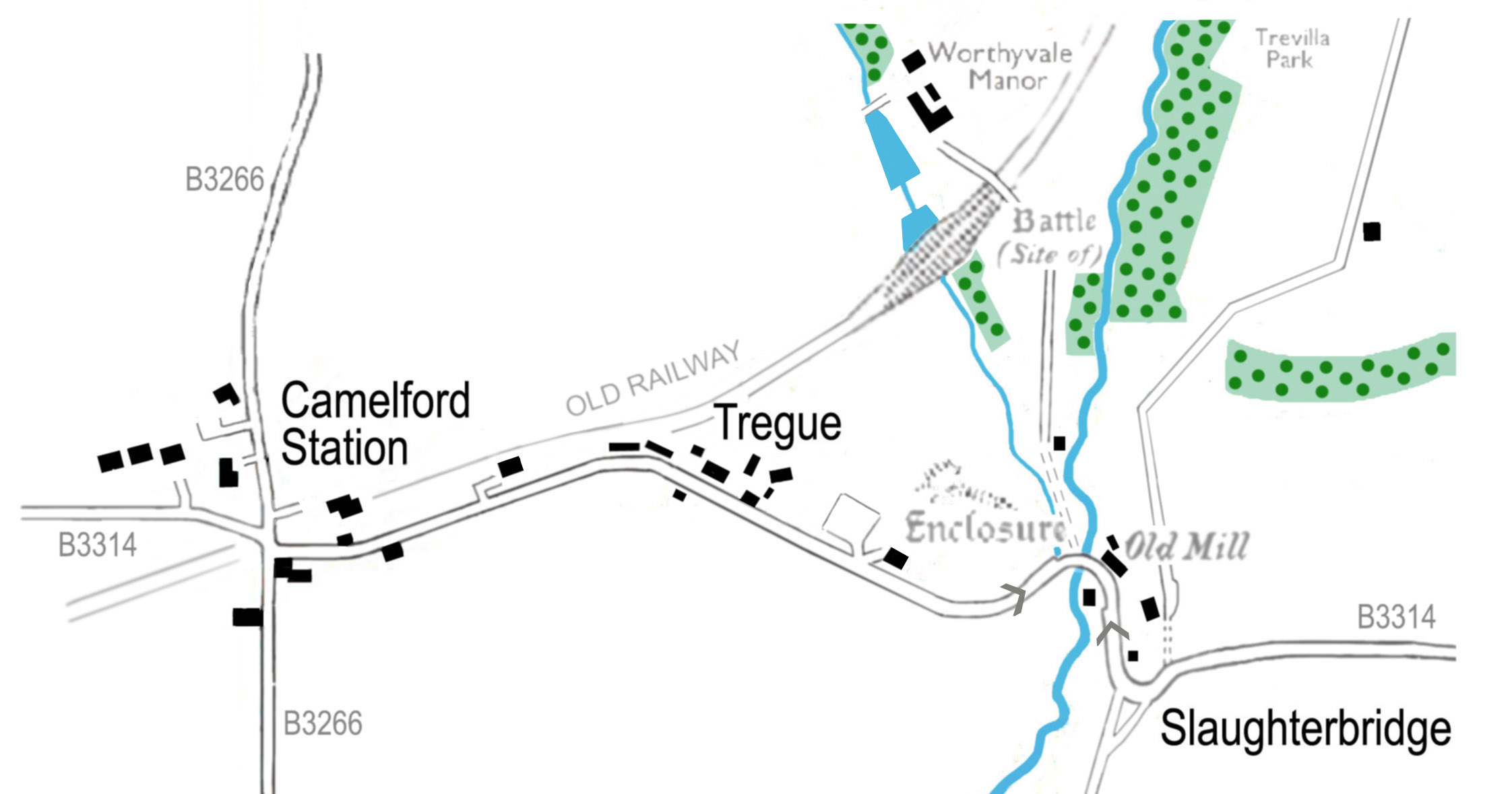 A sketch map of Slaughterbridge, Camelford Station and Treague in north Cornwall, UK